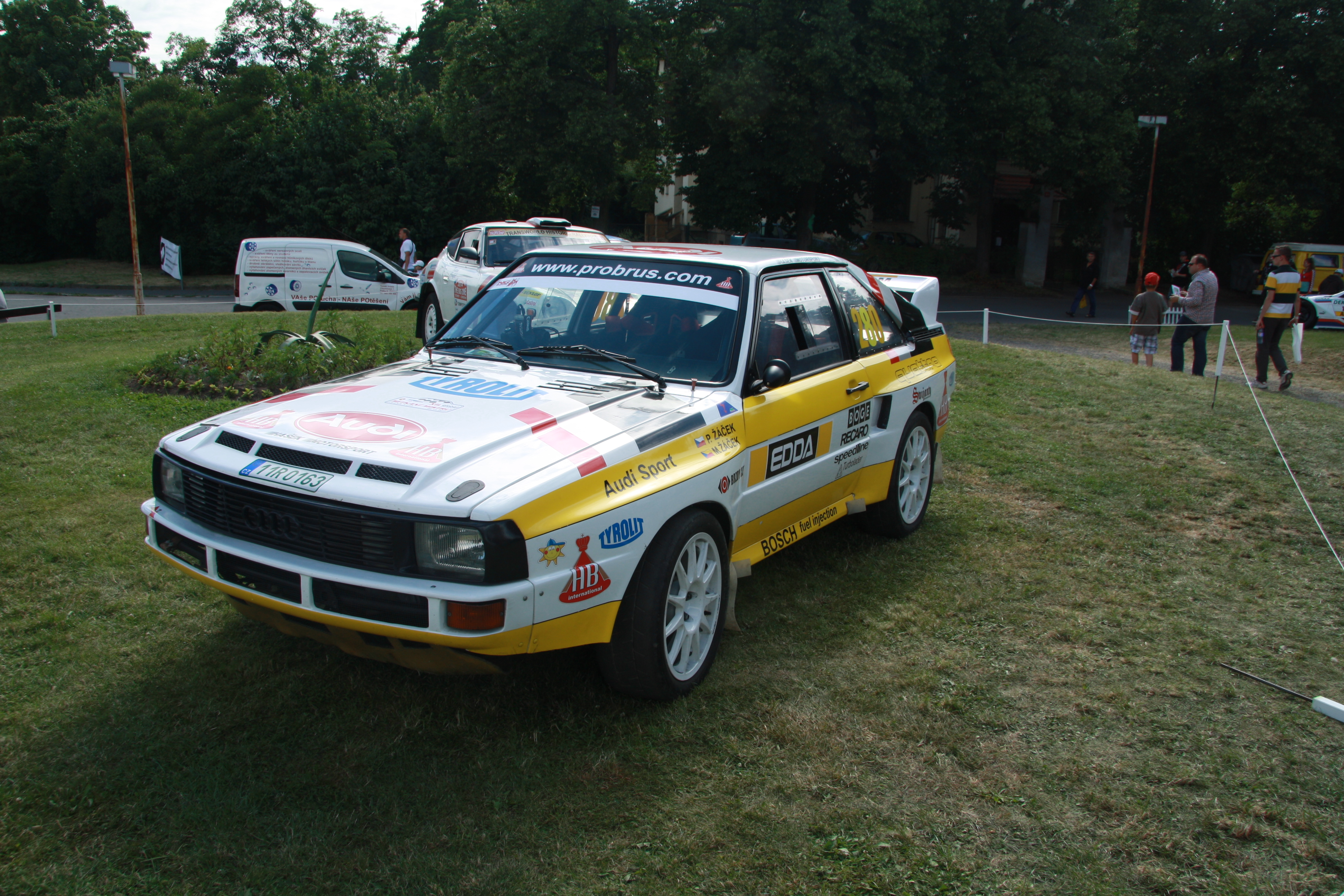 Audi Sport Quattro at Legendy 2014.